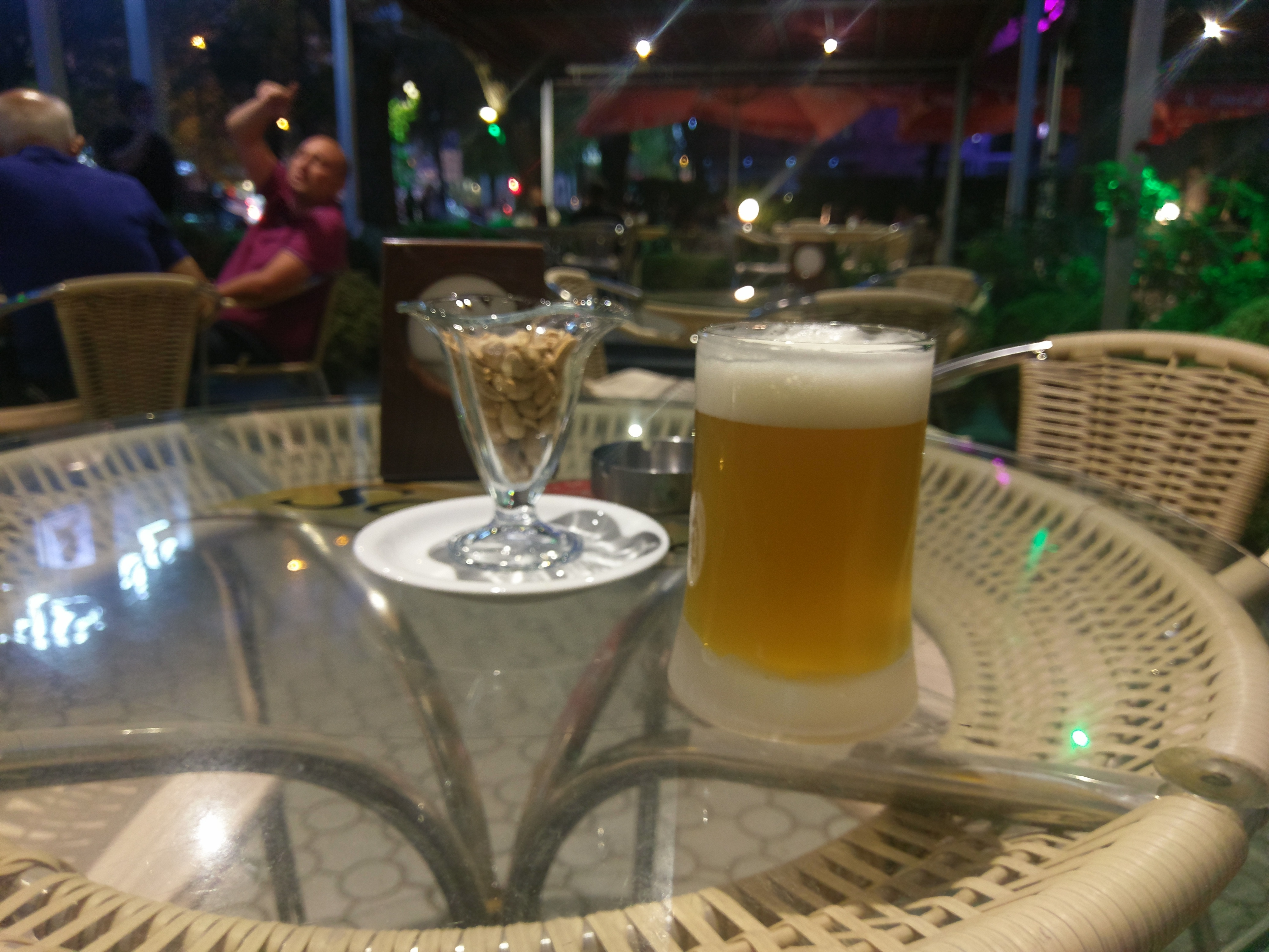 Beer and salted peanuts at Churchill beer garden, Yerevan, Armenia.